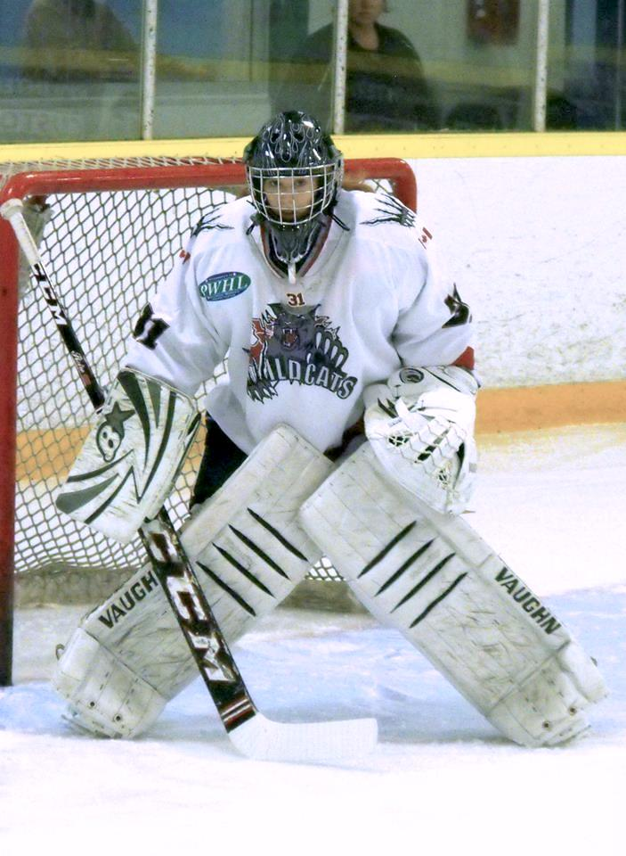 Taken by Devan Mighton during 2014-15 PWHL season.